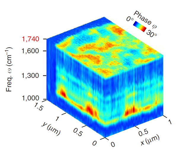 Hyperspectral data cube obtained using neaSNOM nano-FTIR system